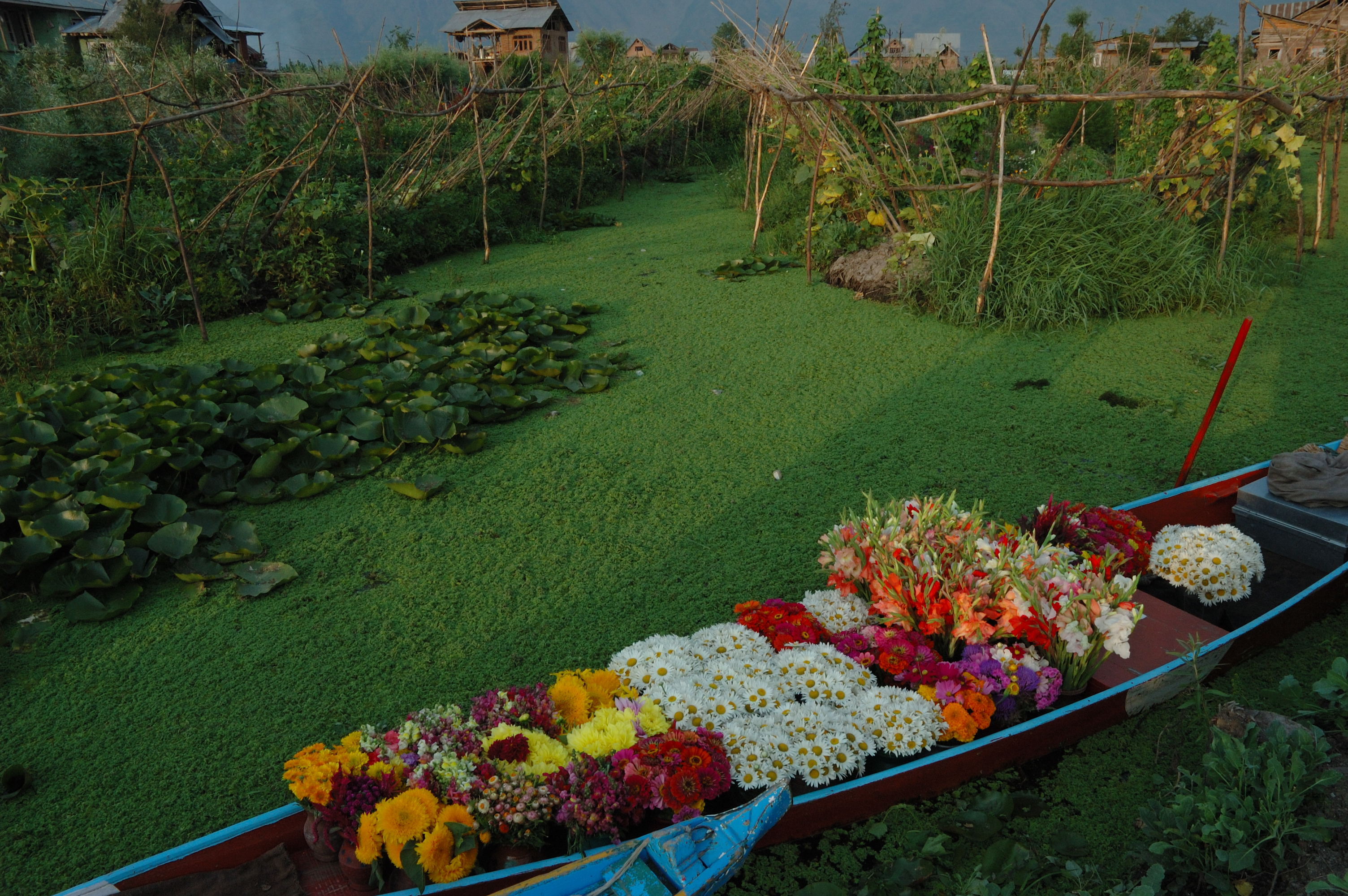 A Florist's Shikara on Nageen Lake, Srinagar. The florist stocks up the shikara with all the flowers picked fresh from his gardens early morning or in the evening. Their major clients are Houseboat owners and tourists, so they spend almost all their time visiting the different houseboats moored on the edges of the Dal and Nageen lakes.